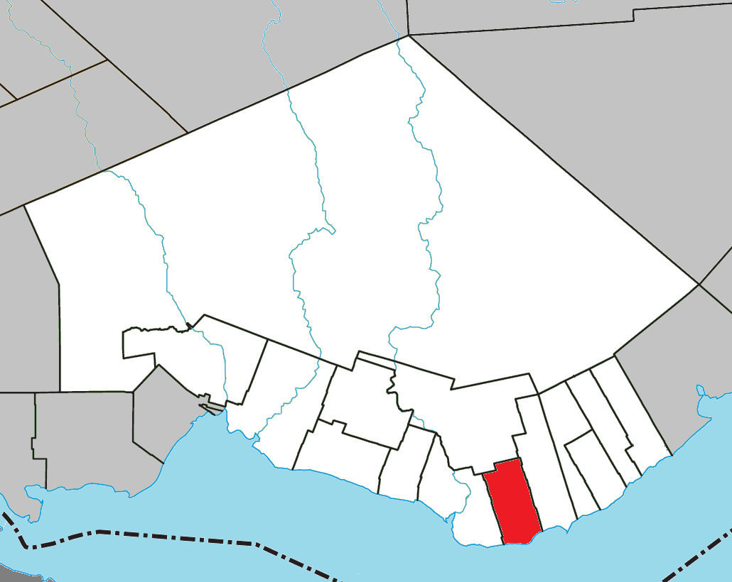 Location of New Carlisle, Quebec within Bonaventure Regional County Municipality.